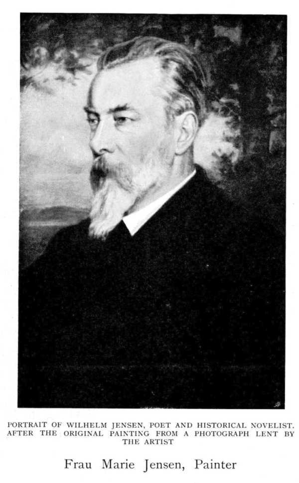 1905 print after page of Women painters of the world, from the time of Caterina Vigri, 1413-1463, to Rosa Bonheur and the present day, by Walter Shaw Sparrow, The Art and Life Library, Hodder & Stoughton, 27 Paternoster Row, London